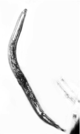 Detail of a dauer juvenile of Formicodiplogaster myrmenema adjacent to a worker of Azteca alpha in Dominican amber.